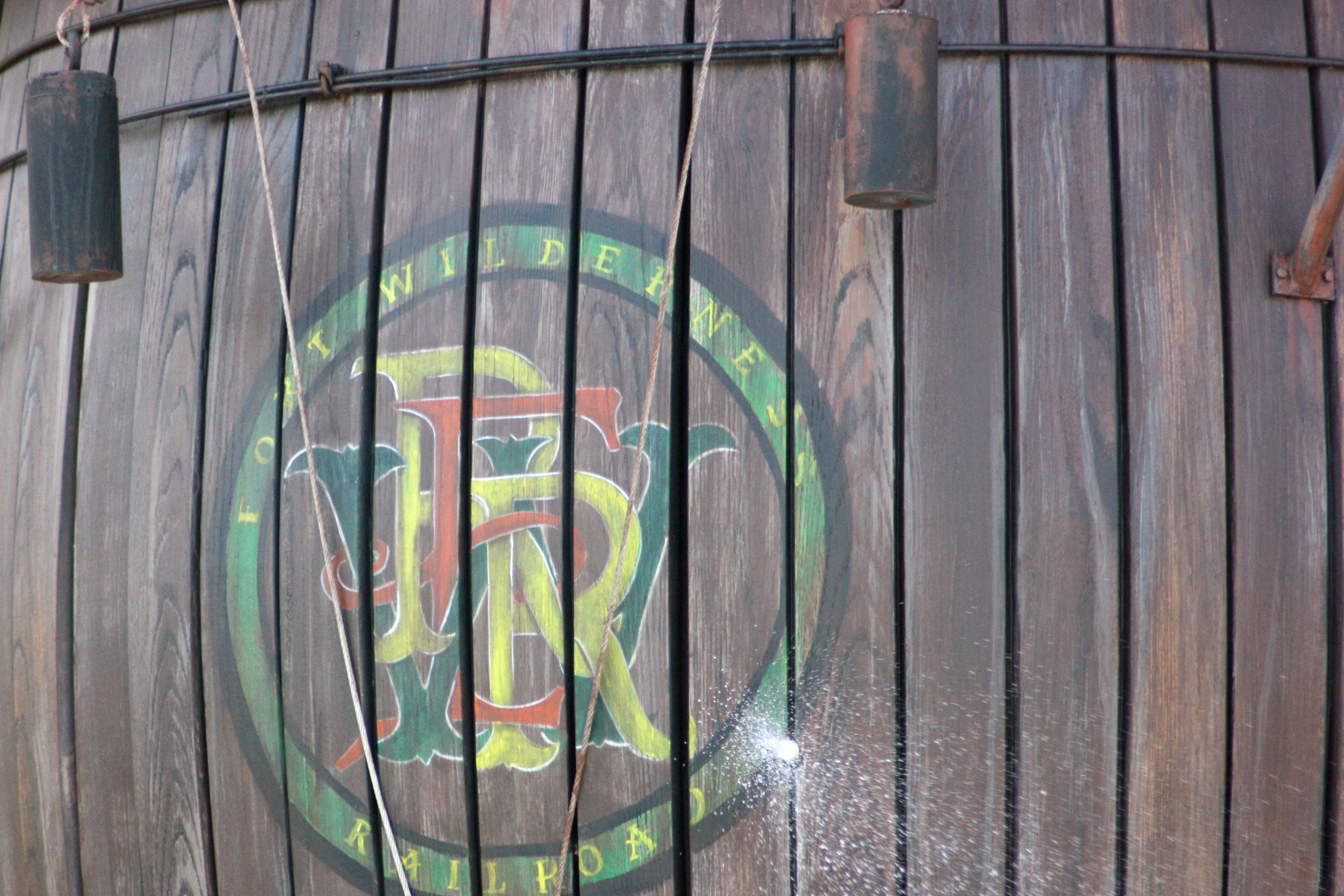 The logo for the former Fort Wilderness Railroad on a prop for a water slide in Disney's Fort Wilderness Resort & Campground.